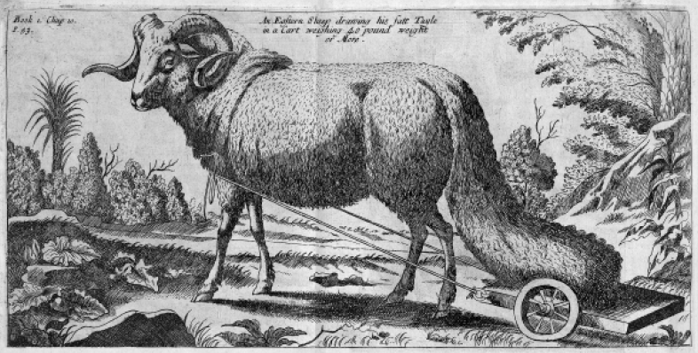 Fat-tailed sheep pulling a cart to protect its tail as depicted in Job Ludolphus' (Ludolf the Elder's) A New History of Ethiopia (1684).